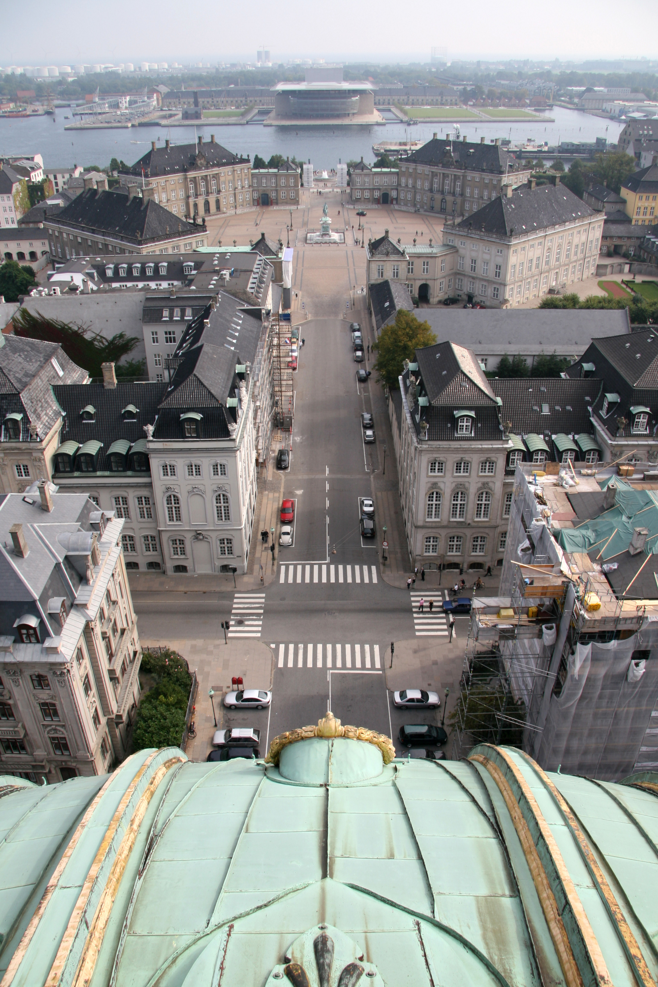 Amalienborg, Copenhagen, Denmark Viewed from the top af Frederik's Church (The Marble Church)